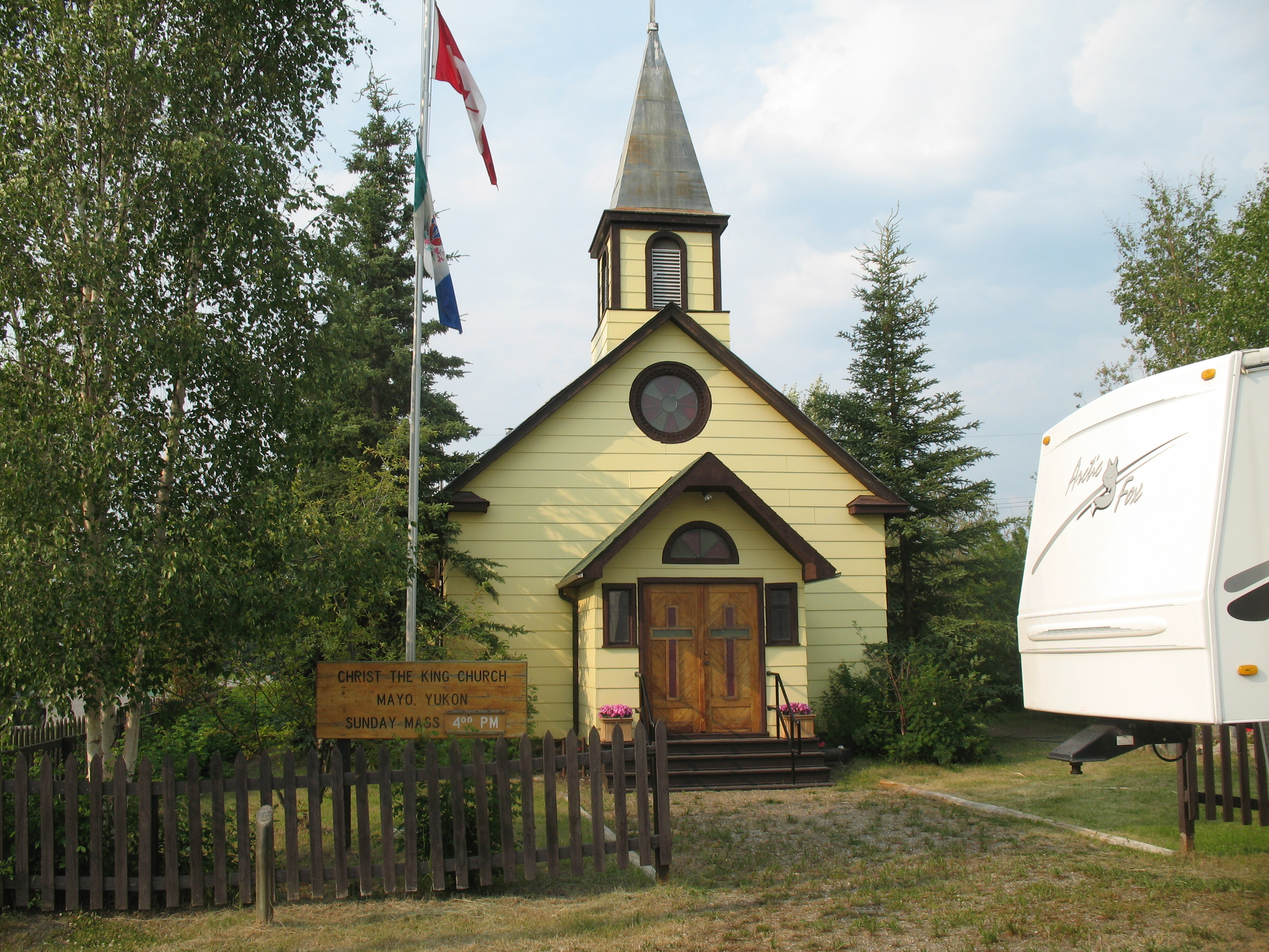 Christ the King Church in Mayo, Yukon